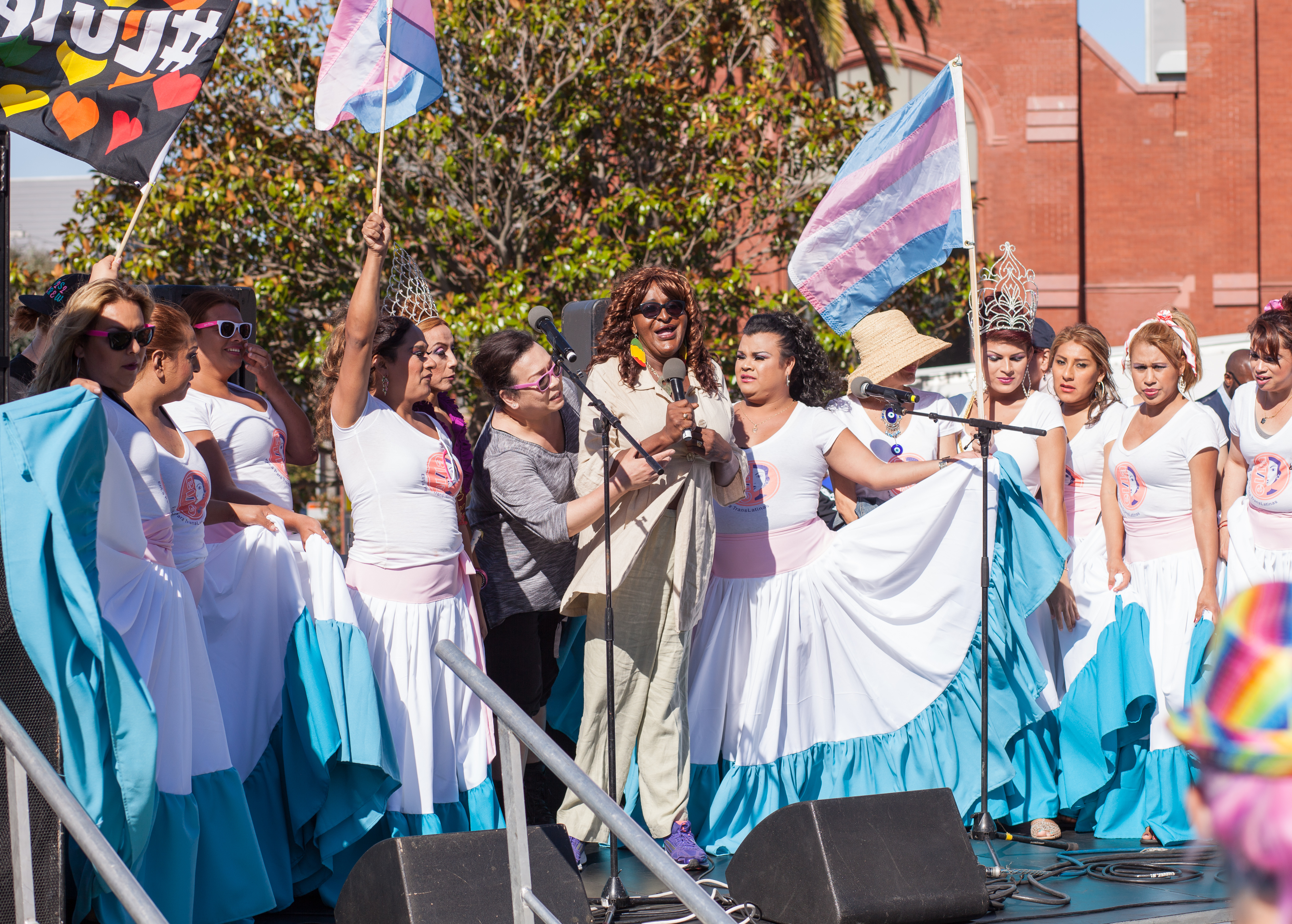 Janetta Johnson of the TGI Justice Project, accompanied by members of El/La TransLatinas, speaks on stage at the San Francisco Trans March 2016.